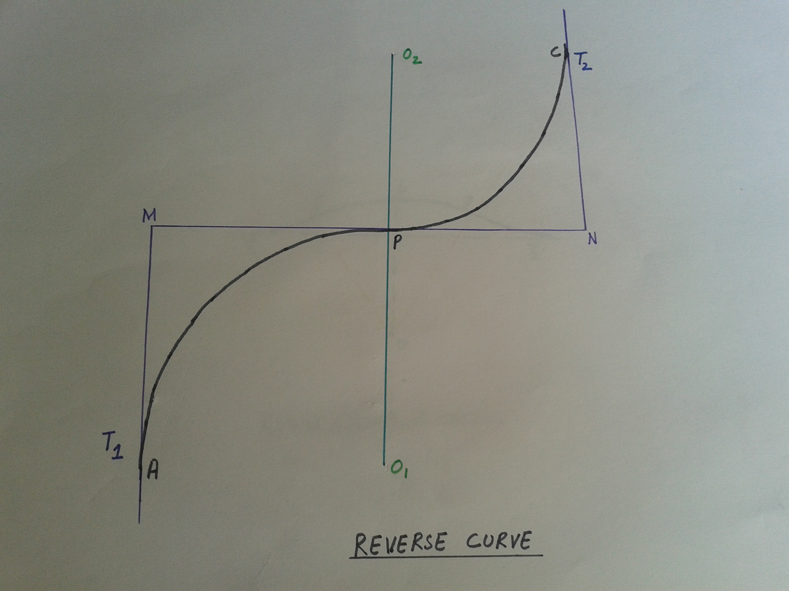 Curve